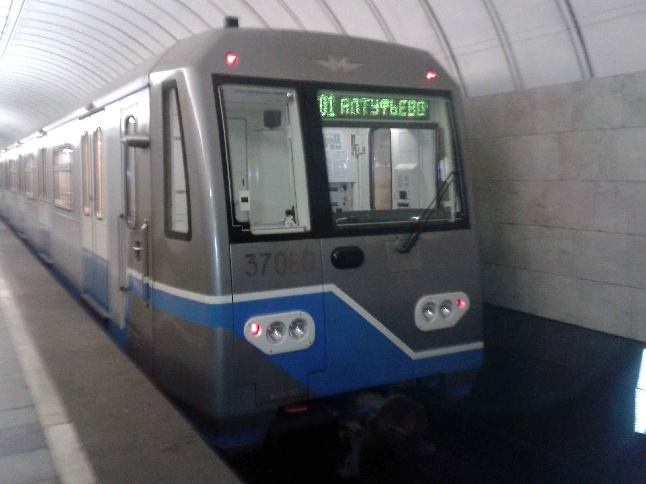 81-760/761 "Oka" on "Savjolovskaja" subway station.